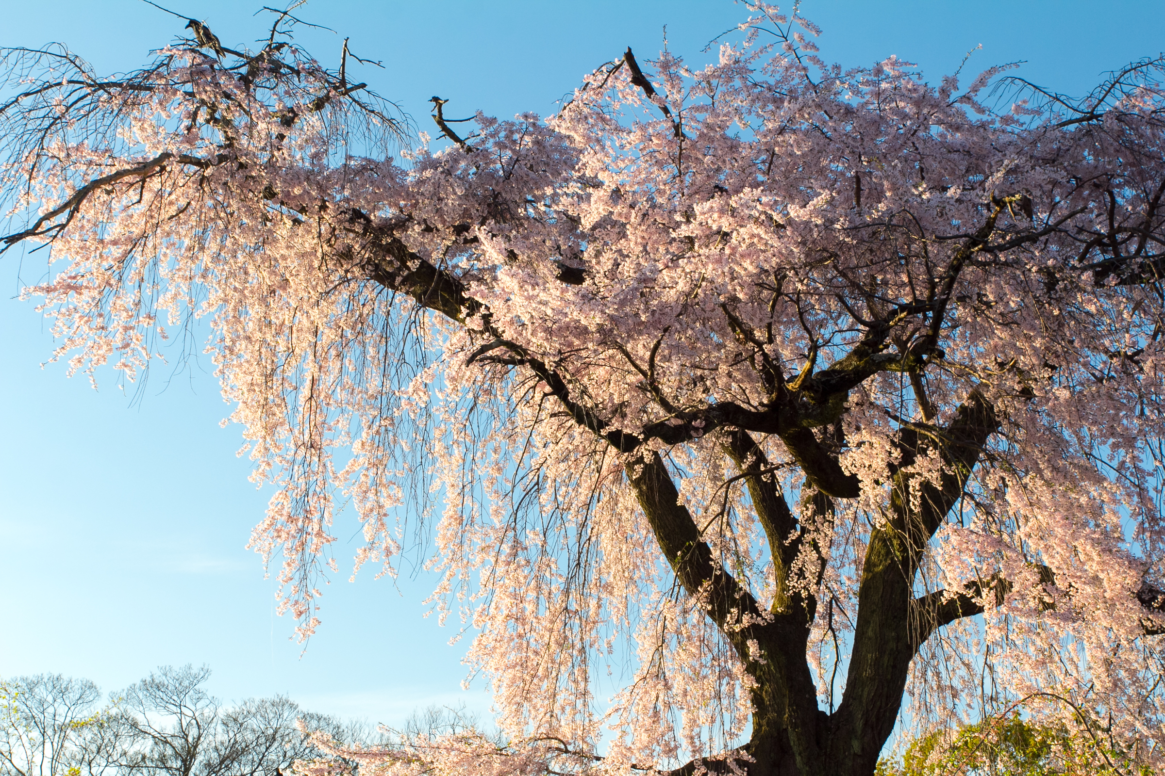 Sakura in Kyoto's Maruyama Park